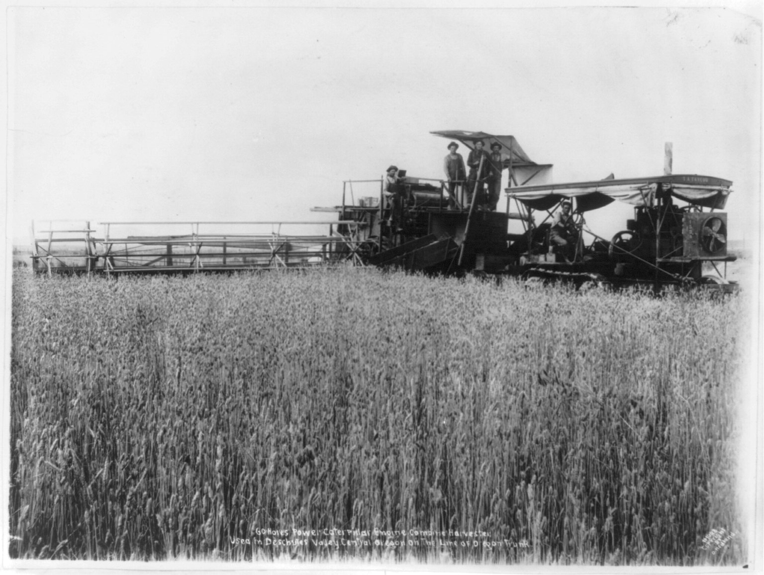 Title: 60 horsepower caterpillar engine combine harvester used in Deschutes Valley, central Oregon, on the line of the Oregon trunk. Abstract/medium: 1 photographic print.